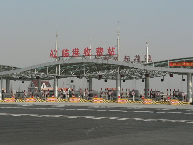 Self-made. Summary Yangshan Deep-water Harbour Zone, Port of Shanghai The entrance of the Yangshan Deep-water Harbour Zone. The Yangshan port is a newly-opened harbour zone of the Port of Shanghai. The Donghai Bridge links Yangshan Islands to Shanghai City.